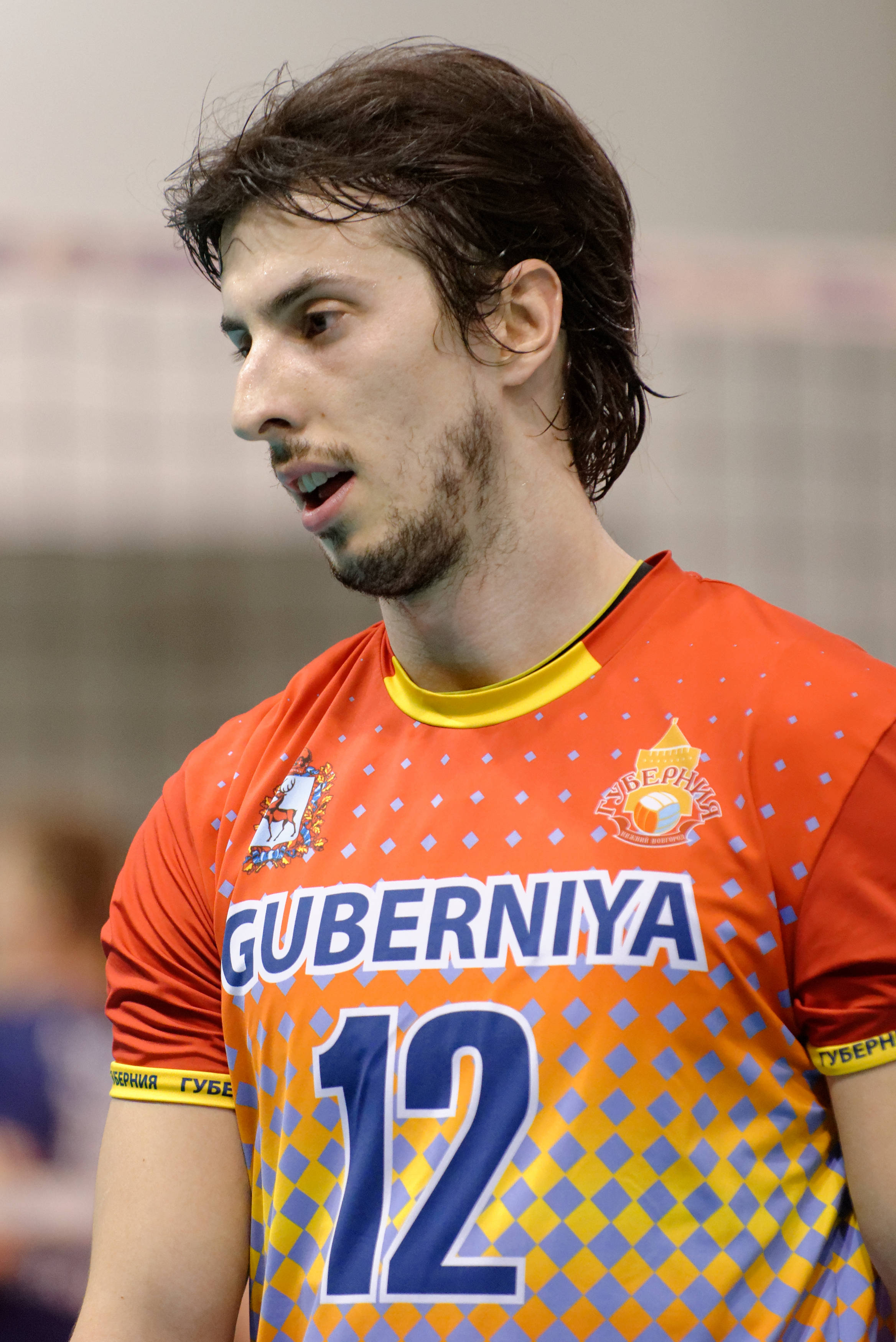 Guberniya Nizhny Novgorod's Miloš Nikić during the 2014 CEV Cup against Paris Volley in Paris on 29 March 2014.